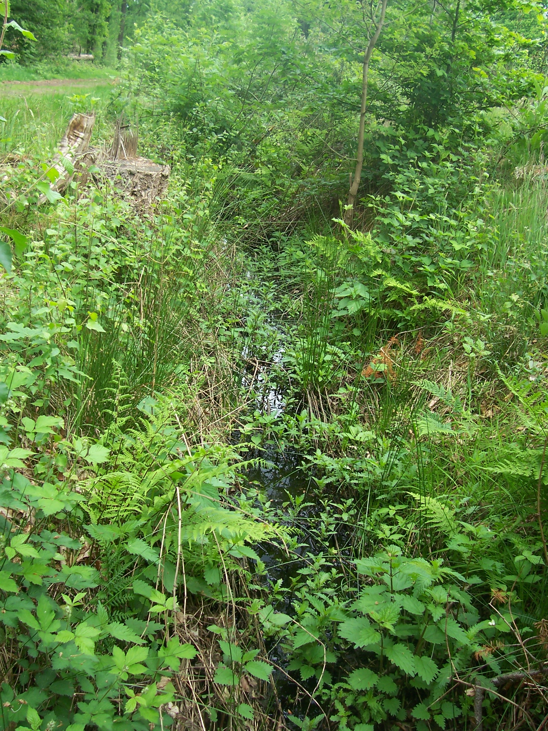 The source of the Bethlehemschebeek in Twente, the Netherlands.